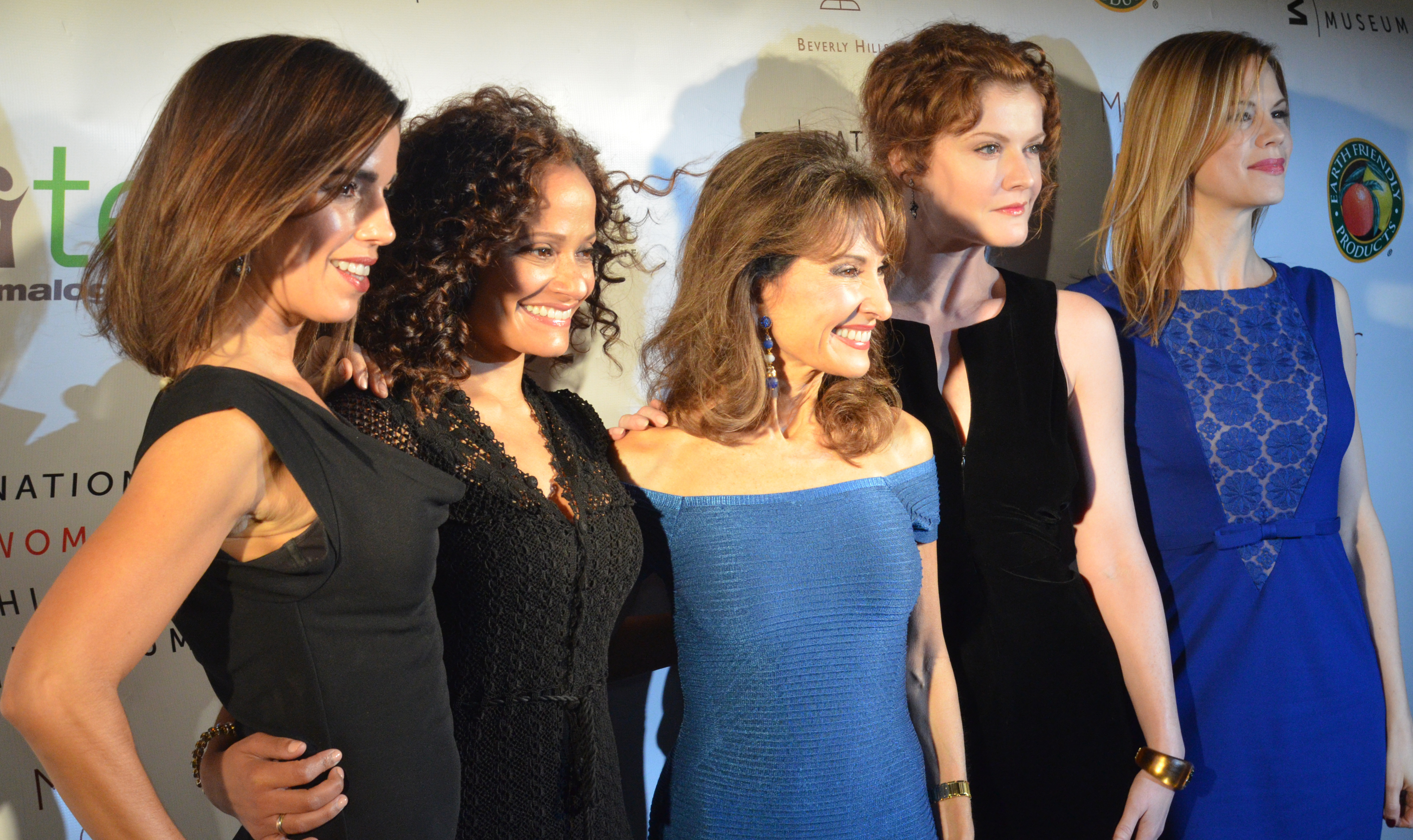 Devious Maids cast by Mingle Media TV